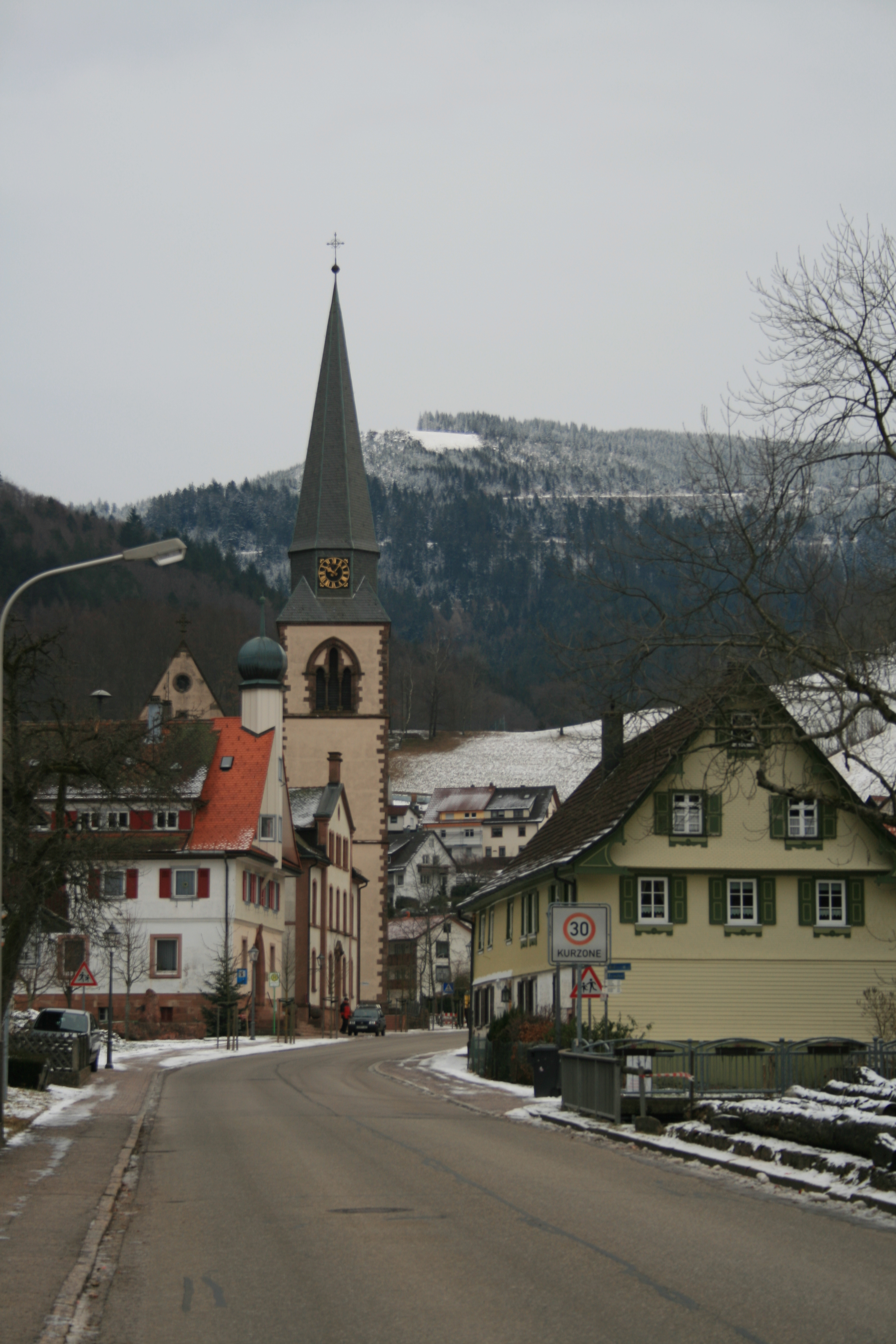 Bad Griesbach (Black Forest) with roman-catholic church, Germany